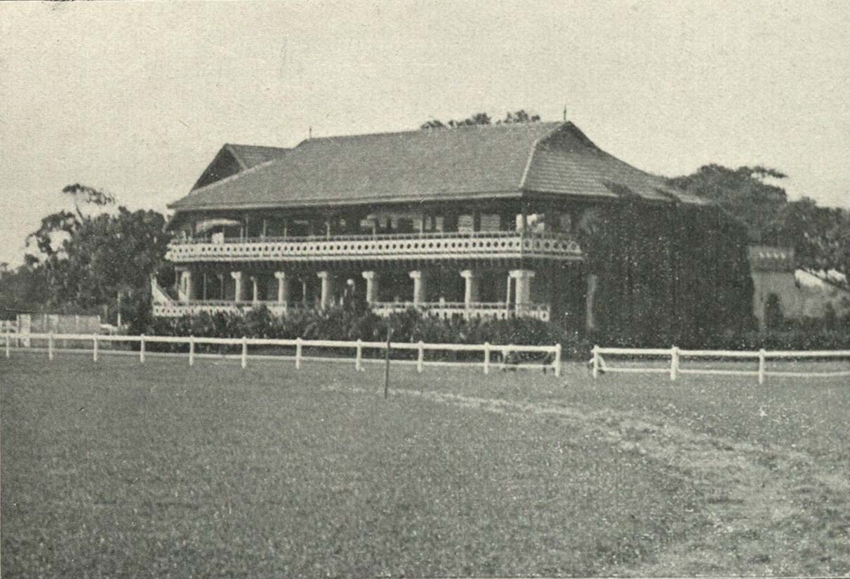 The headquarters of golf, polo, and football. Race meetings are also held here during the season.